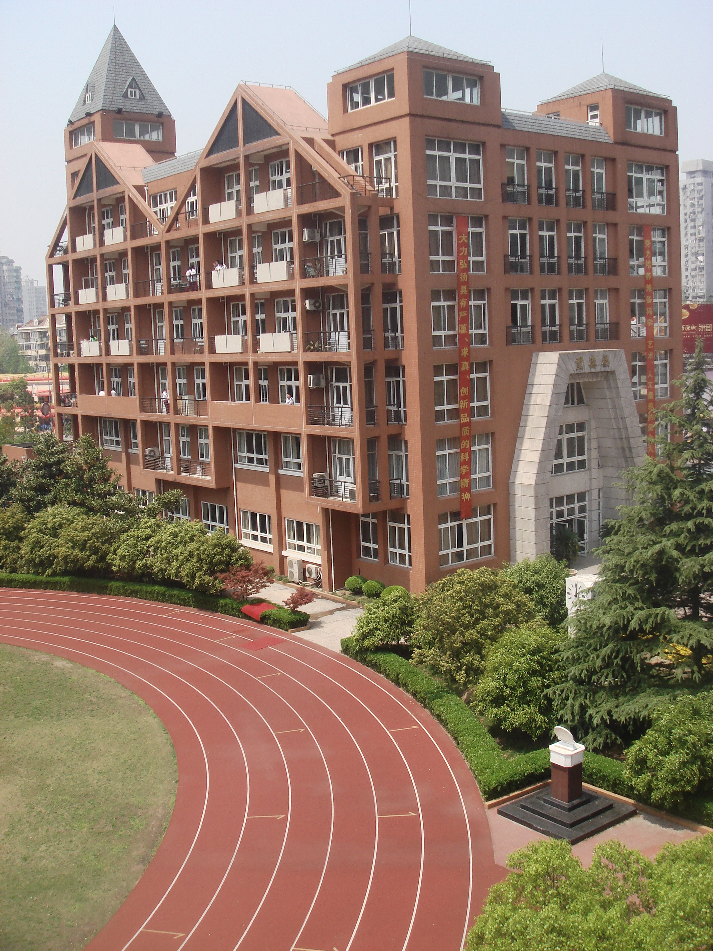 build in 2000 for senior high students